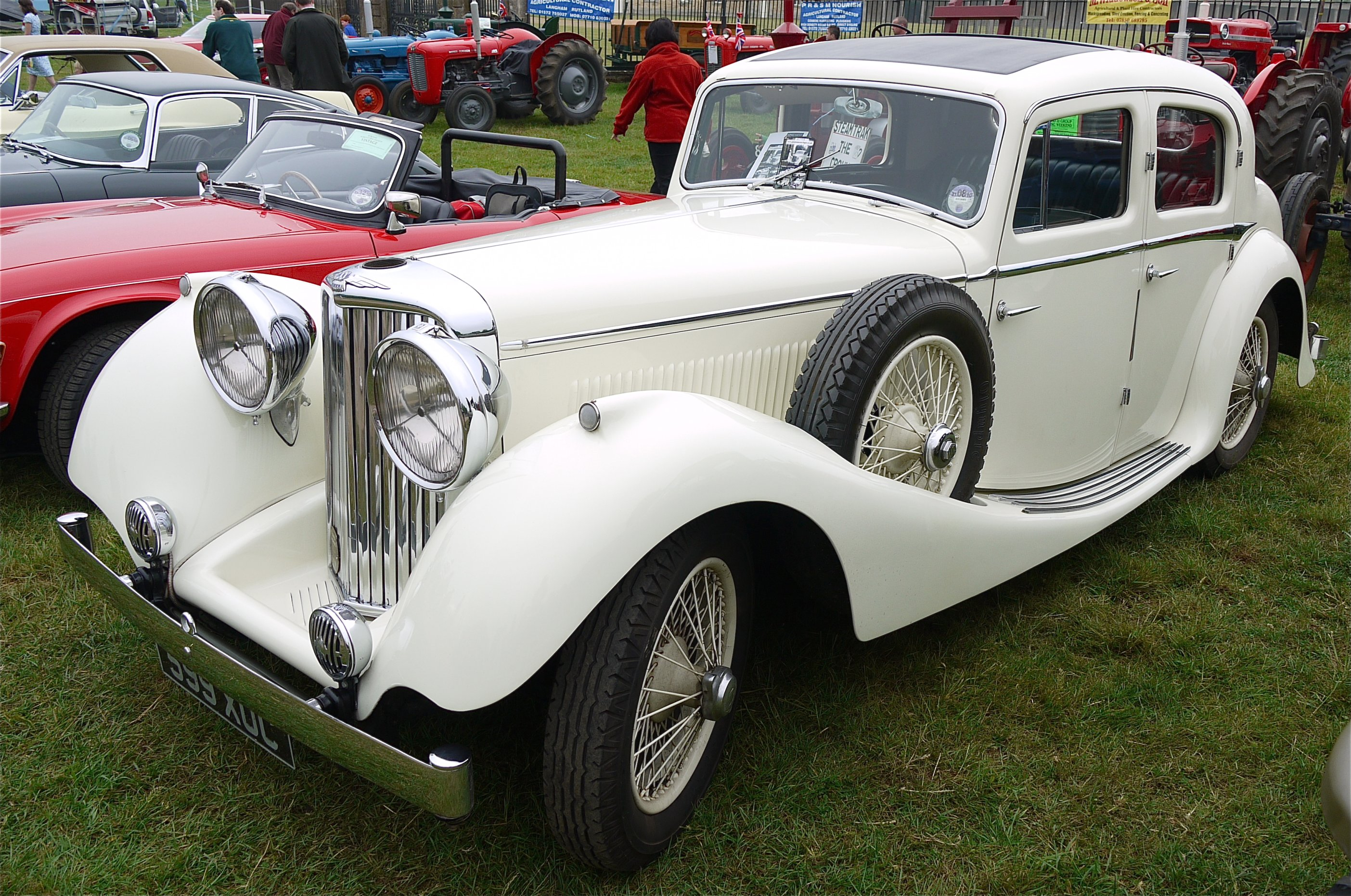 1936 S. S. Jaguar 2½-litre sports saloon (DVLA) re-registered 10 August 2007, manufactured 1936, 2663cc Panasonic G1 14-45 Lens